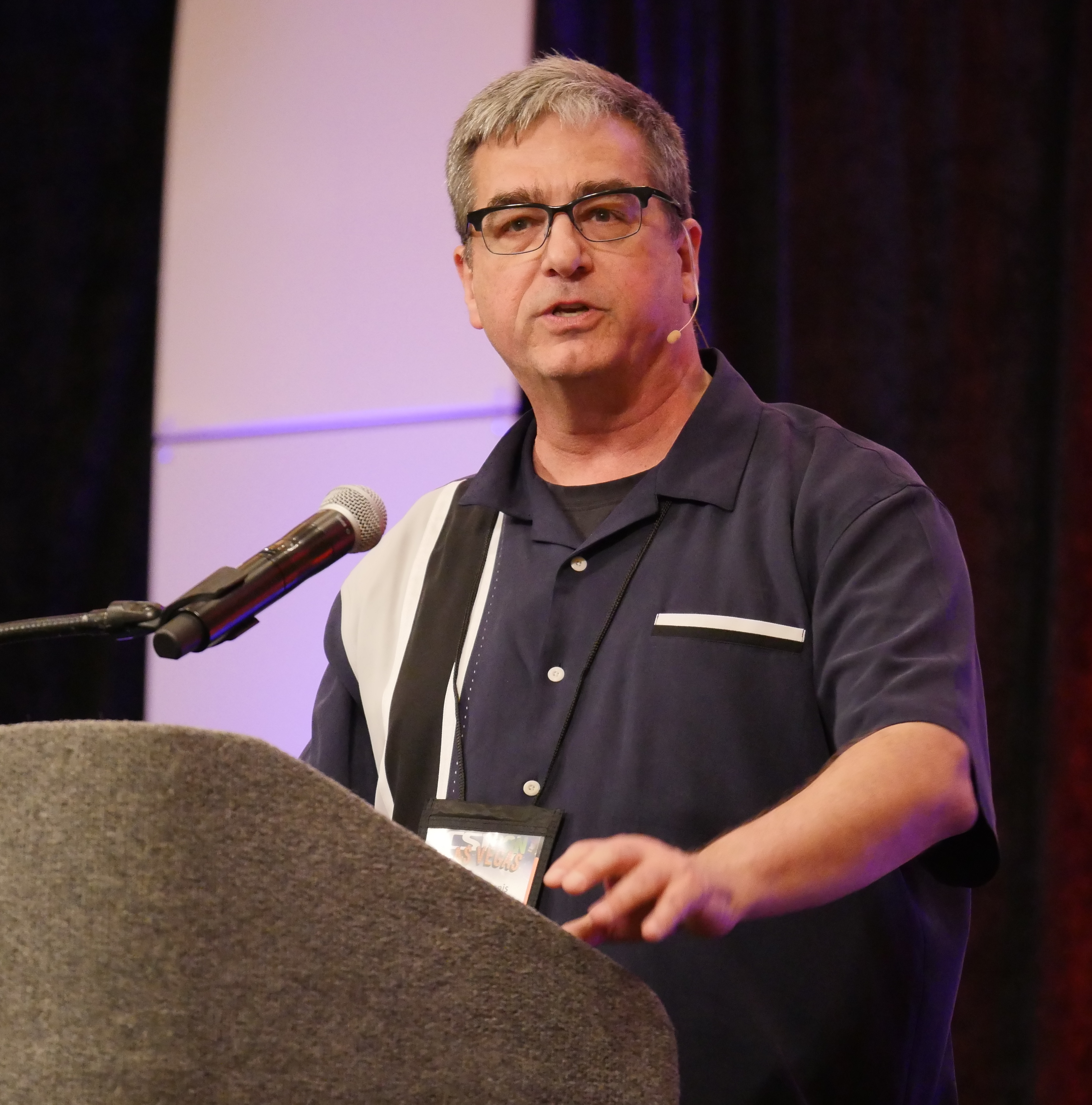 Anthony Pratkanis Altercasting as a Social Influence Tactic CSICon 2016